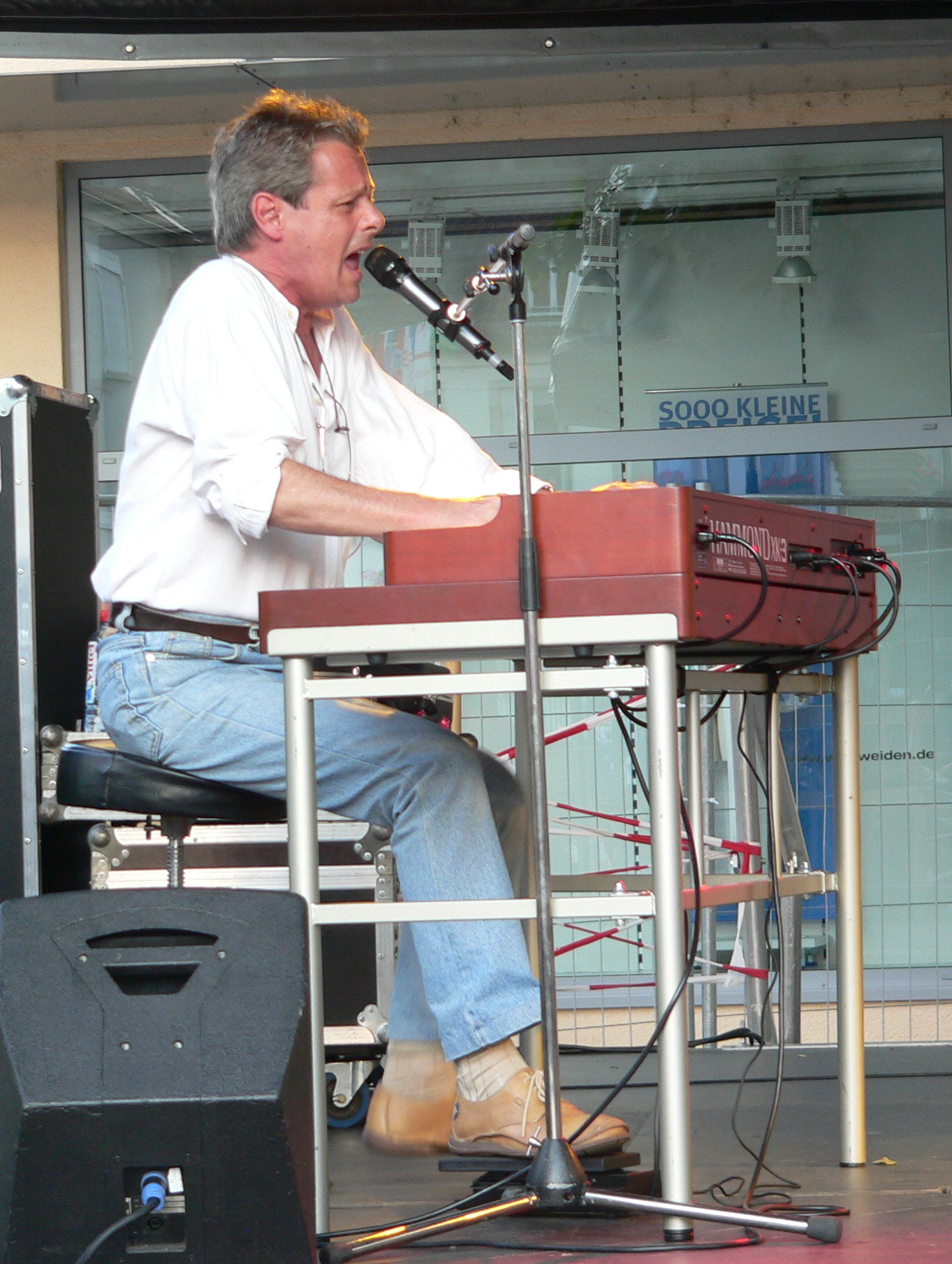 Eddie Hardin (now: Spencer Davis Group) at a concert on 8. July 2006 in Neckarsulm